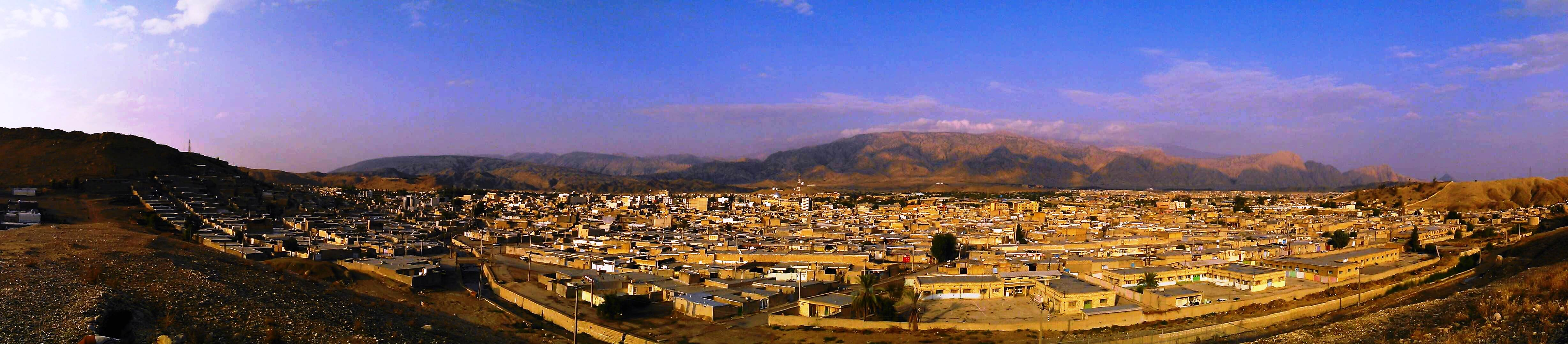 chachsaran city